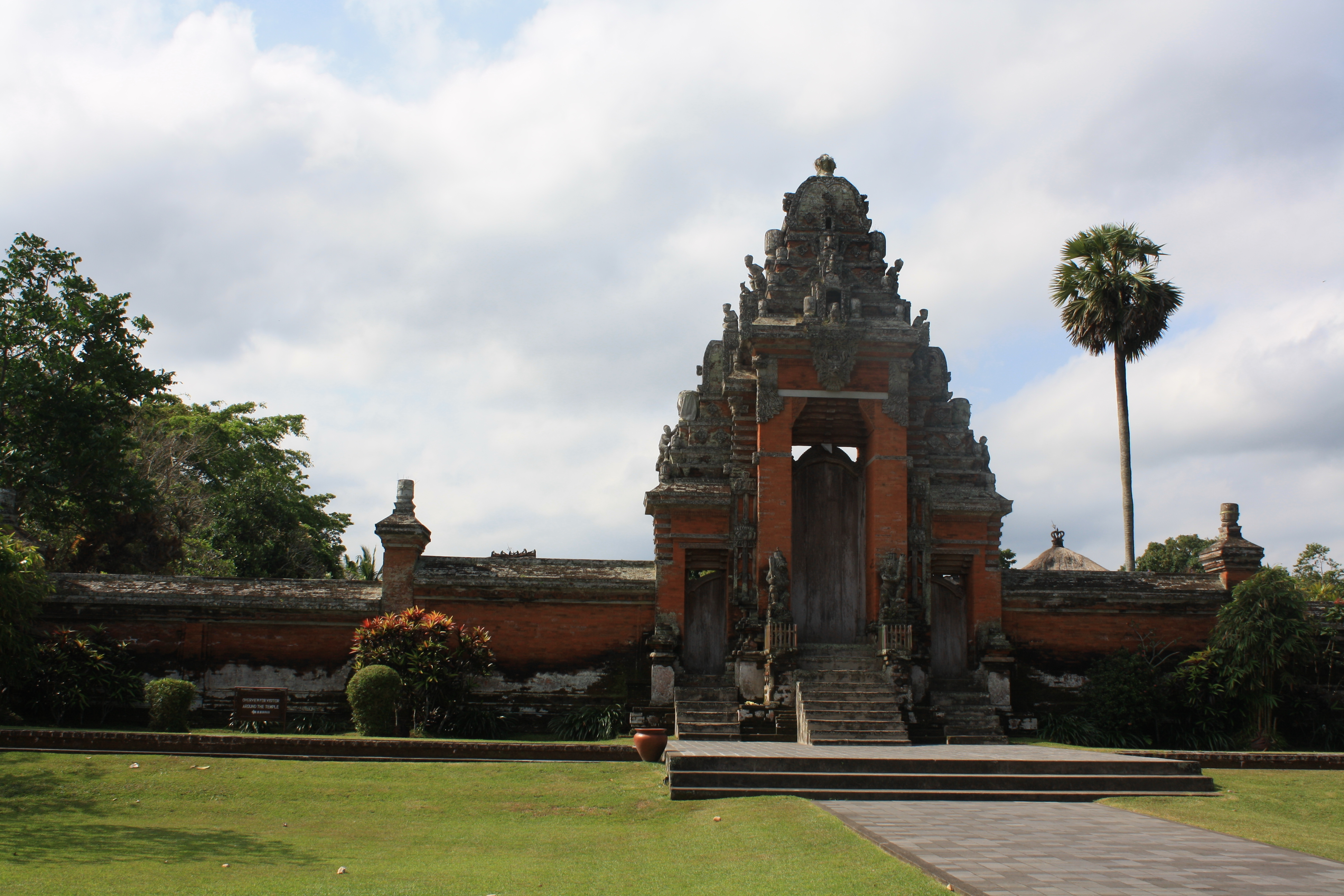 Main entrance of Taman Ayun temple at Mengwi